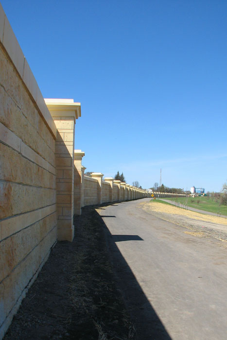 Floodwall north of downtown Grand Forks, North Dakota with the North Dakota State Mill in the background.